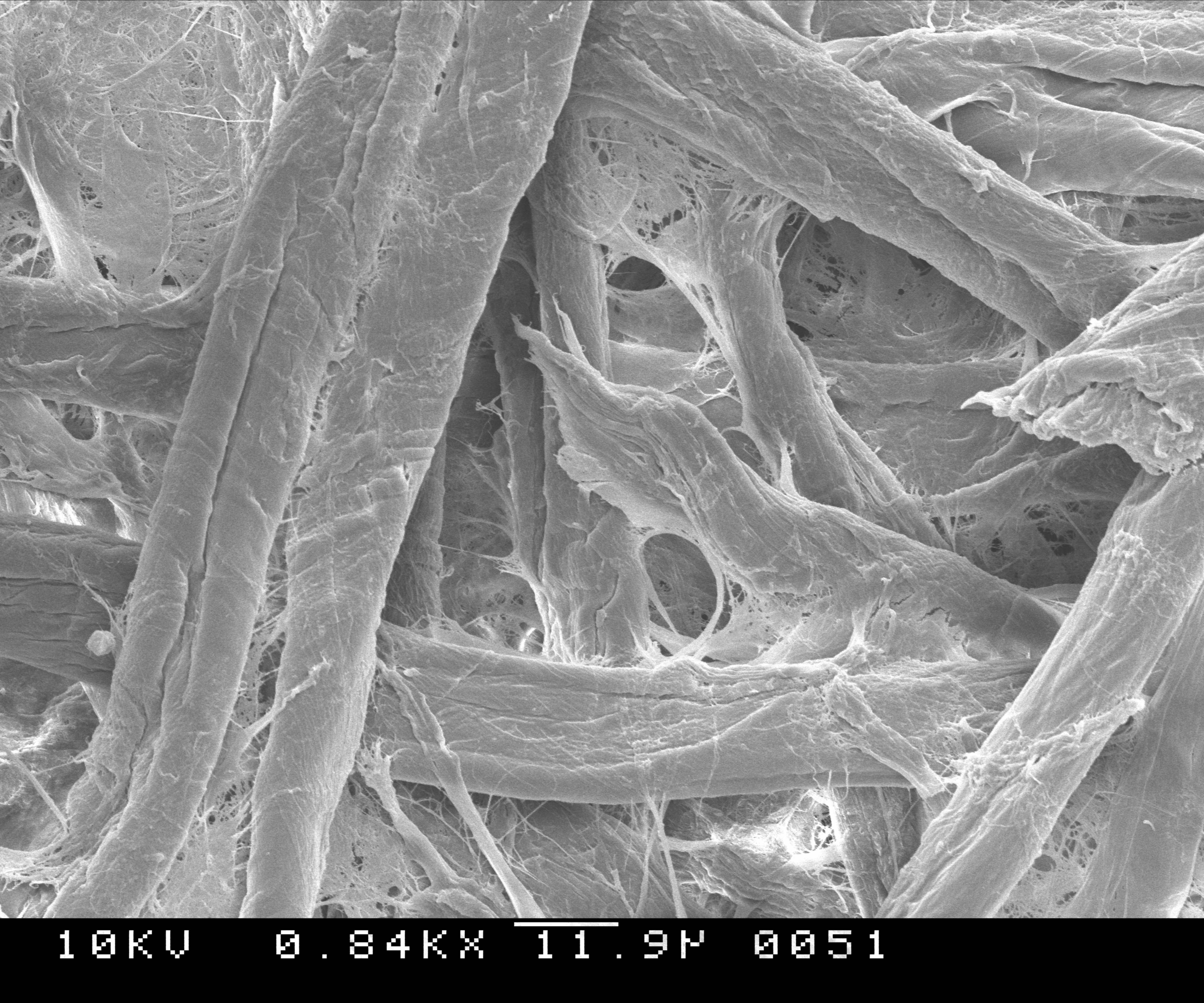 A scan of filter paper magnified 840 times under a scanning electron microscope.